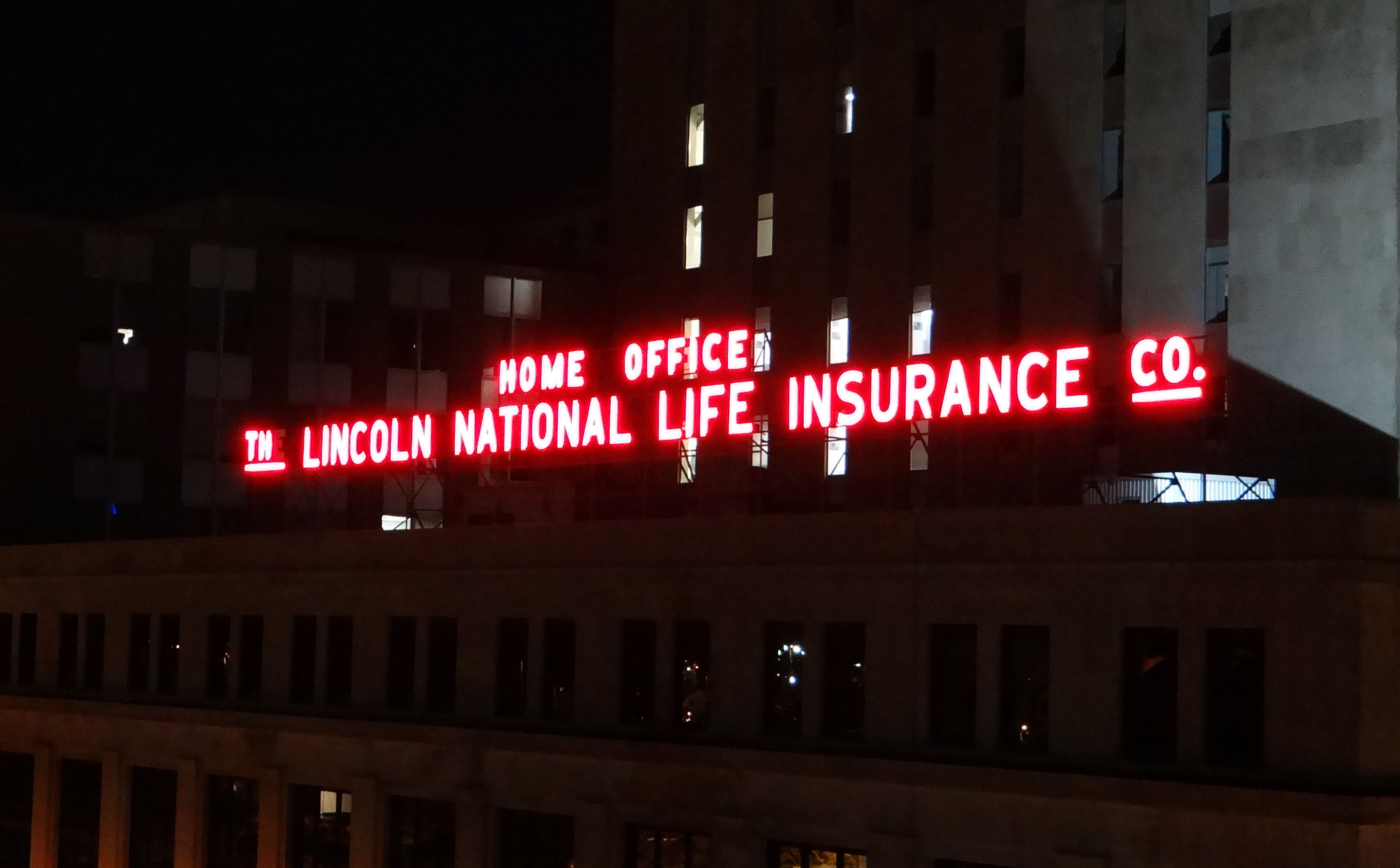 Although Lincoln National Corporation moved its headquarters to Radnor, Pennsylvania in 1999, the offices in Fort Wayne maintain the sign depicting the building as the "home office" of the company.